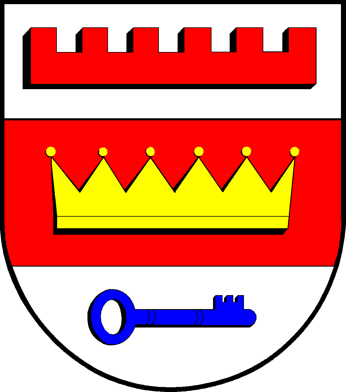 Coat of arms of the municipalitie Tappendorf in Schleswig-Holstein, Germany.